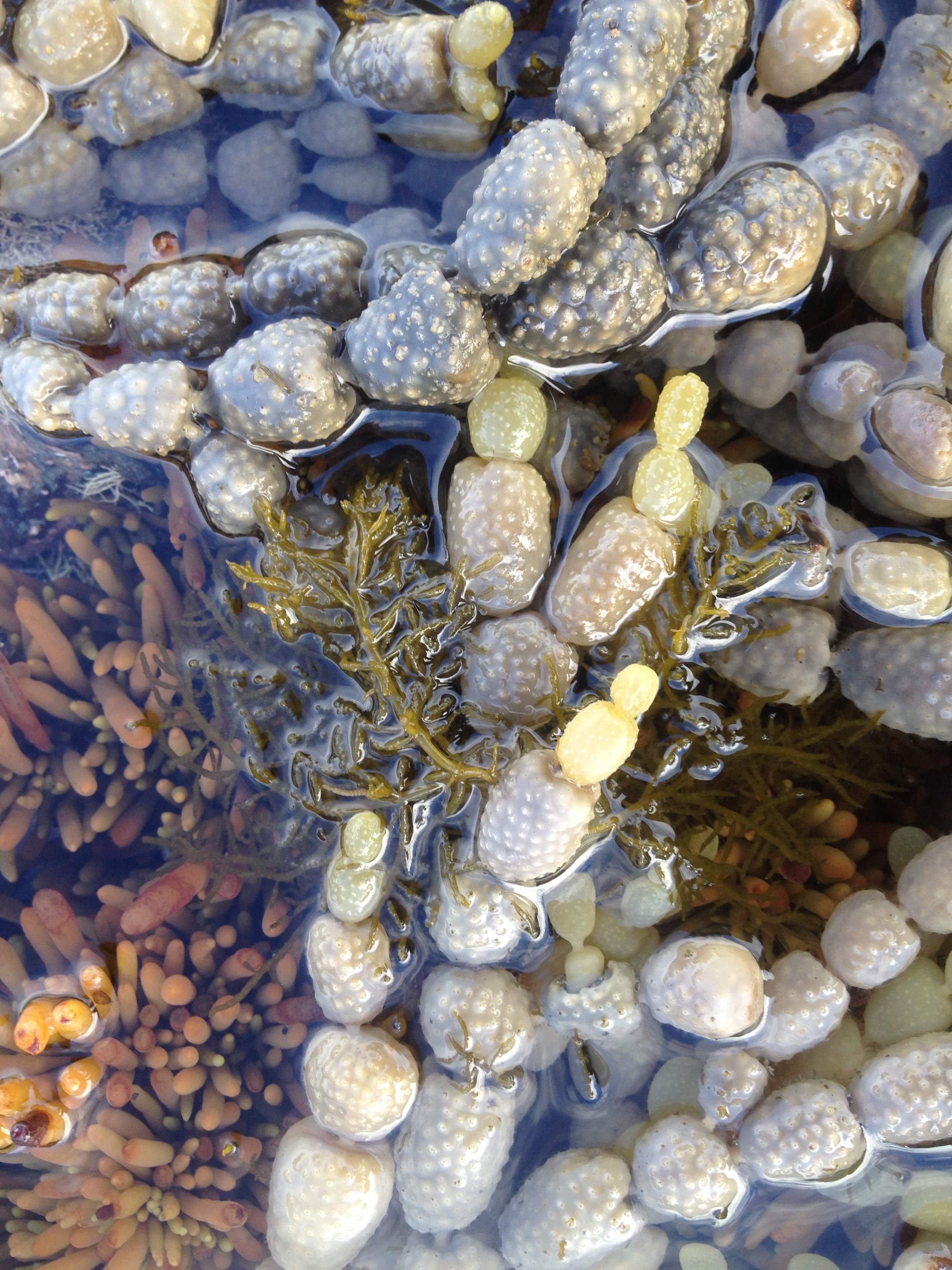 A small, branching Notheia epiphyte living on it's host, Hormosira banksii, in a Kaikoura tide pool.